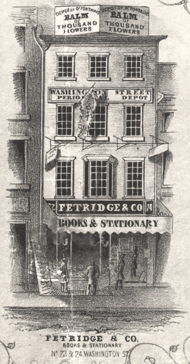 Boston, 1852. Detail from: Henry McIntyre's "Map of the City of Boston and Immediate Neighborhood." (Published by H. McIntyre, No.17 Doane St., Boston, & N.E. Cor. of Perry & Pine Sts. Philadelphia, 1852. Friend & Aub lith. Wagner & McGuigan's Steam Lith. Press, Philadelphia).